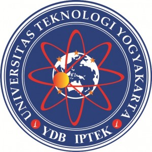 Universitas Teknologi Yogyakarta Emblem